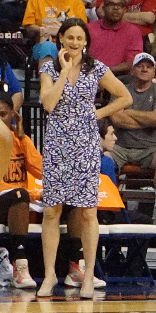 Sandy Brondello coaching West All-Star team at 2015 All-Star Game